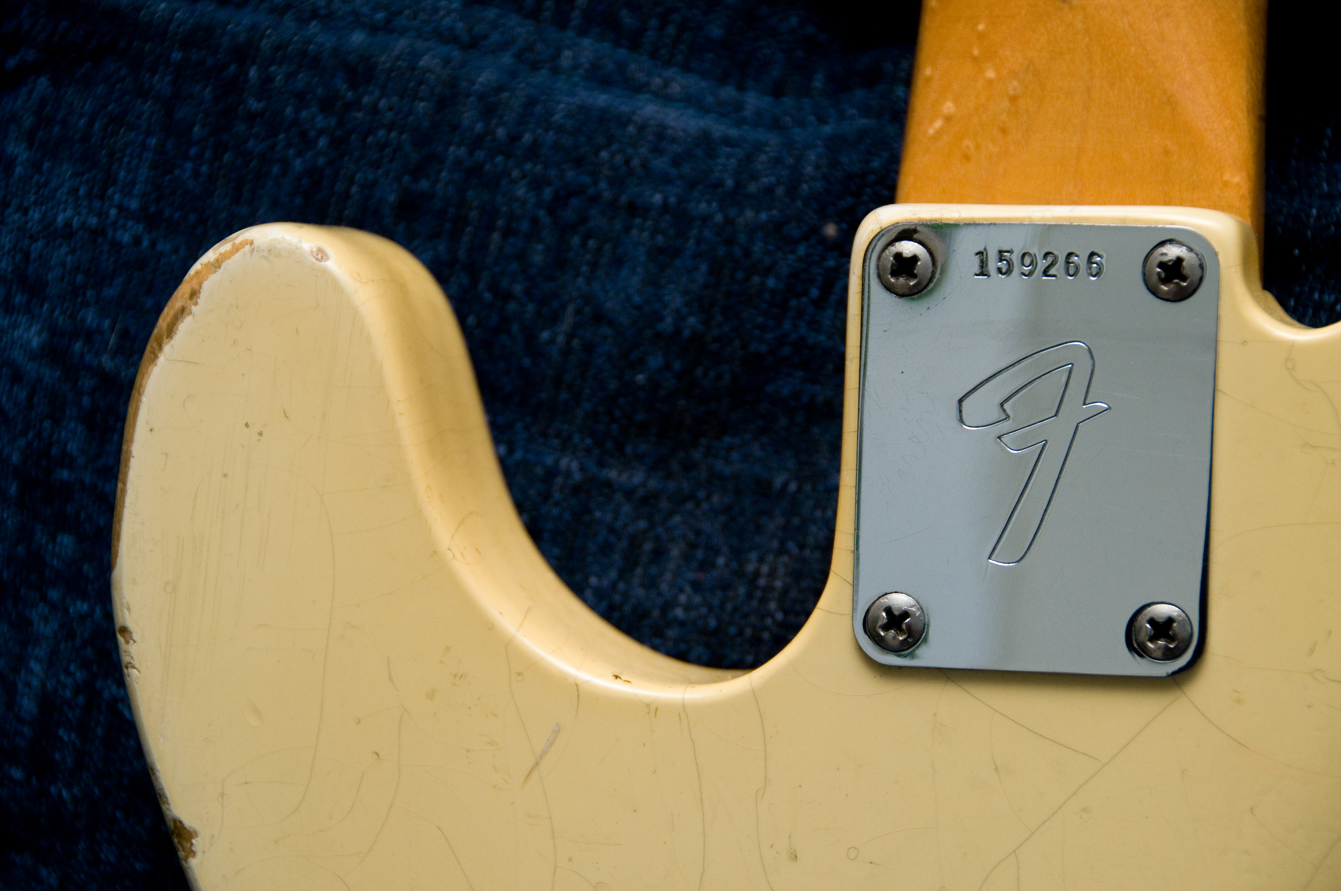 1966 Fender Telecaster (SN159266) neck joint plate